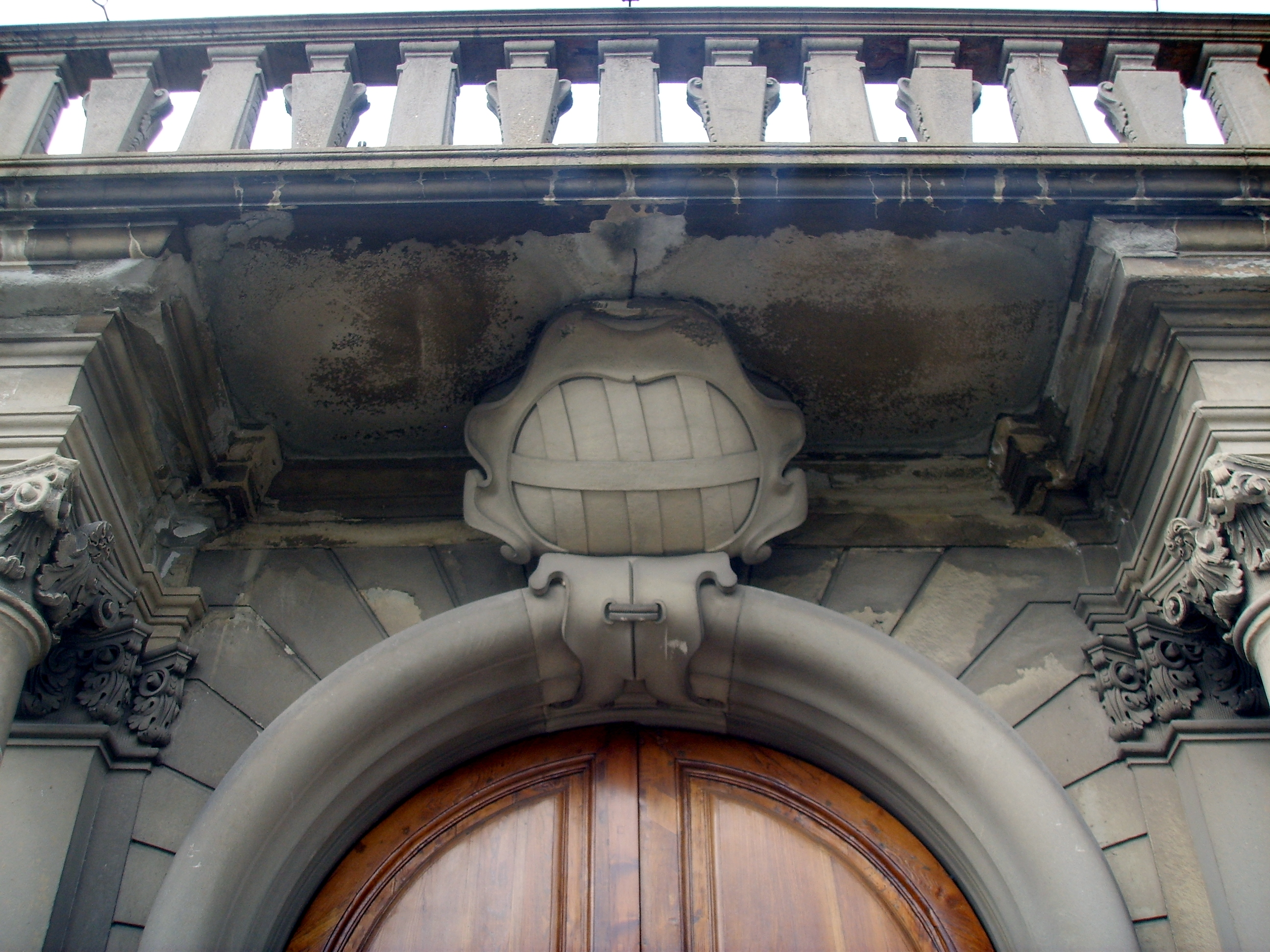 Coat of arm of the House of Corsini. Relief from Palazzo Corsini, in Florence, Italy